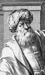 Cropped version of the frontispiece of Johannes Hevelius, Selenographia.